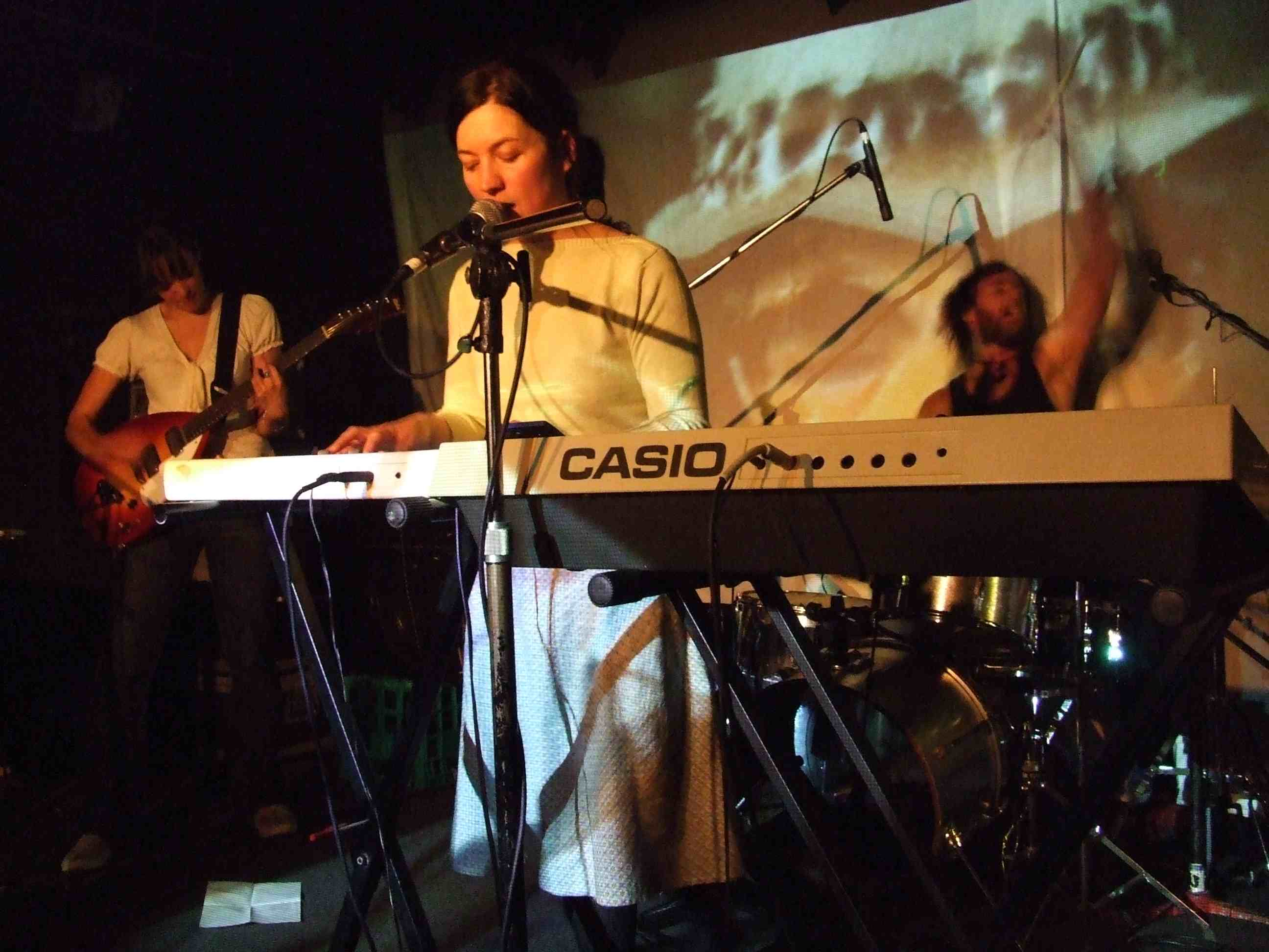 Laura MacFarlane performing with Ninetynine NSC 2007